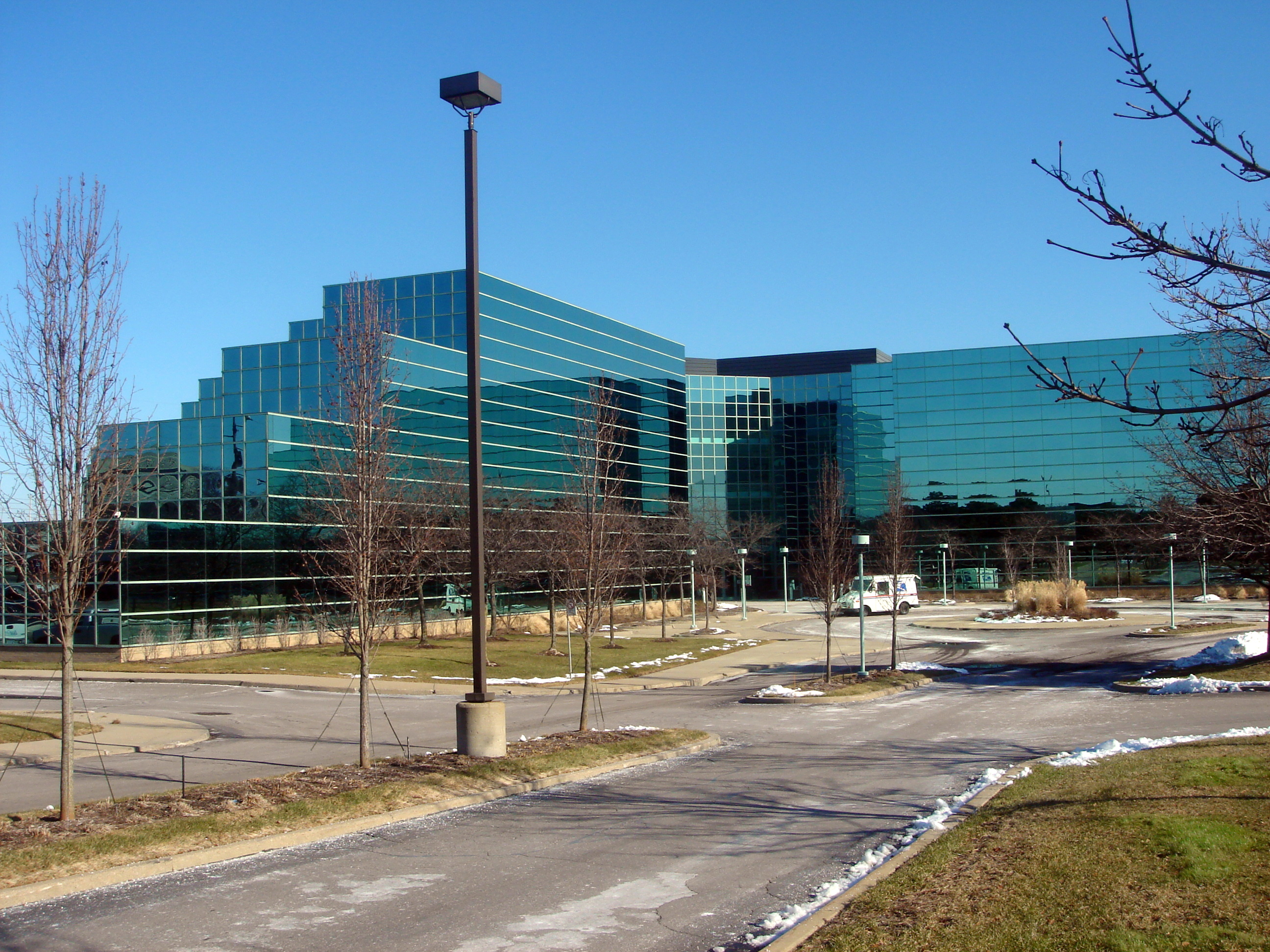 Livonia, Eastern Michigan University Continuing Ed building